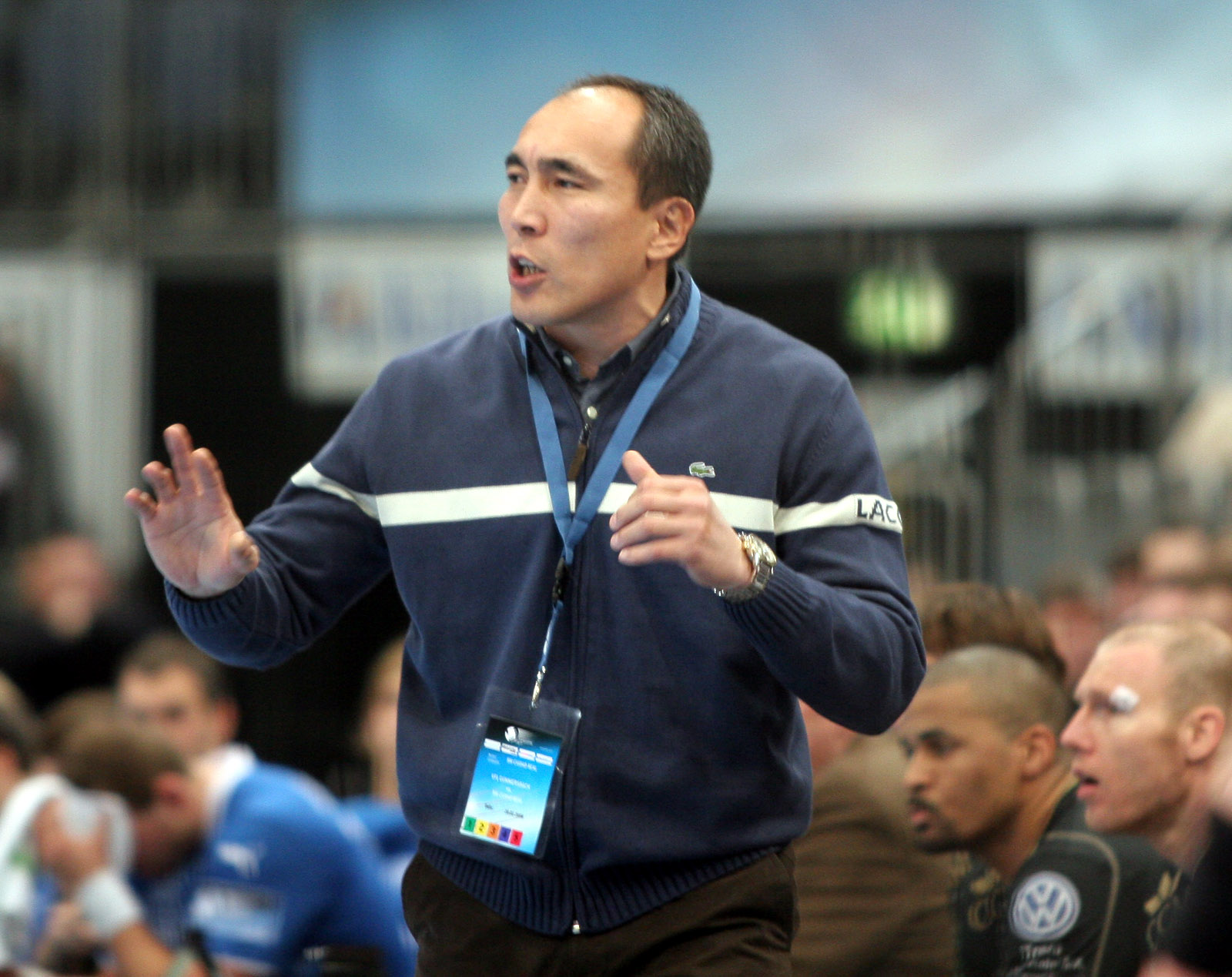 Talant Dujshebaev, handball team coach of BM Ciudad Real (Spain), in the Kölnarena prior the champions league game VfL Gummersbach vers. BM Ciudad Real on February 20th, 2008